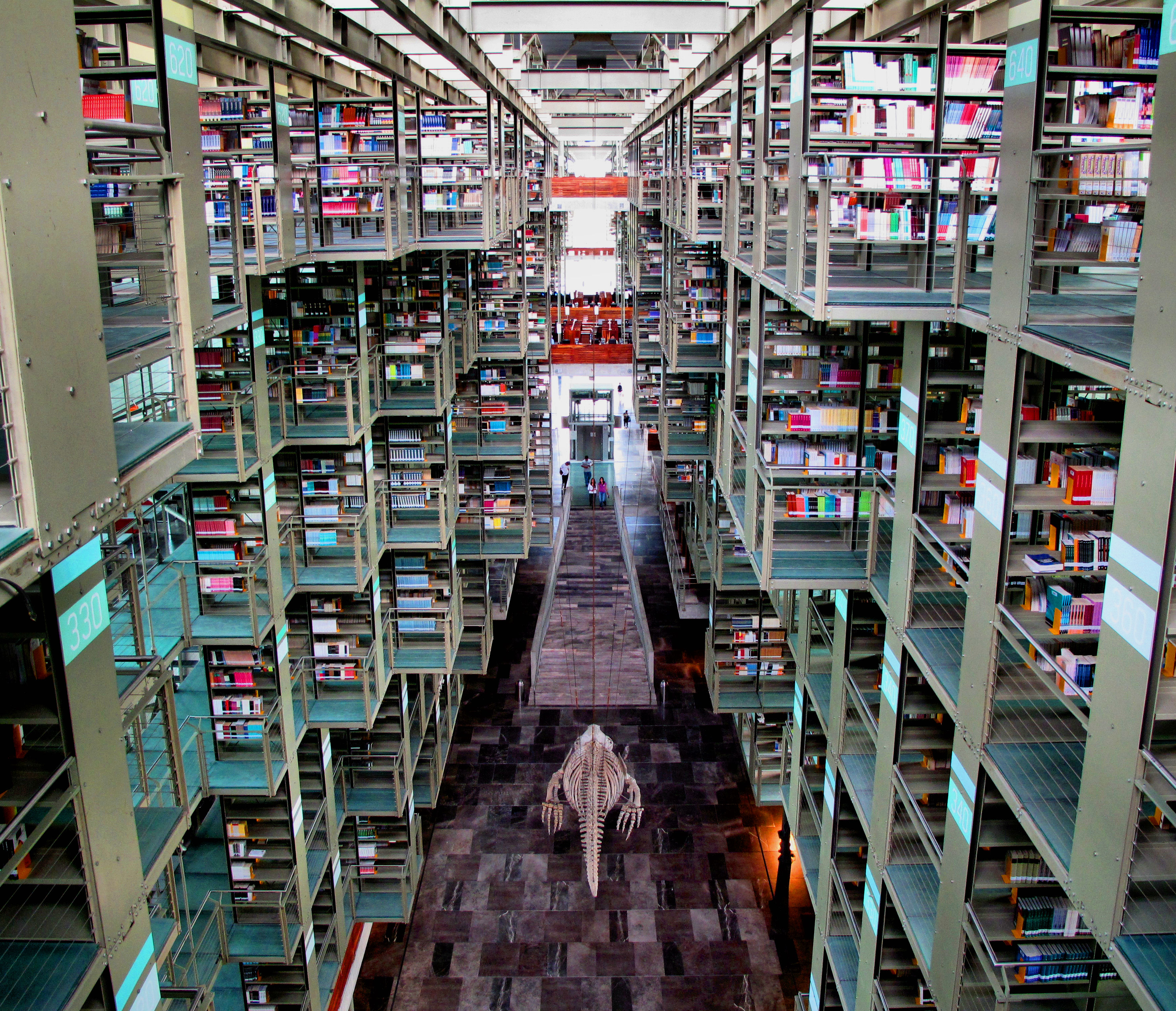 Interior of the Vasconcelos library, Mexico City, Mexico